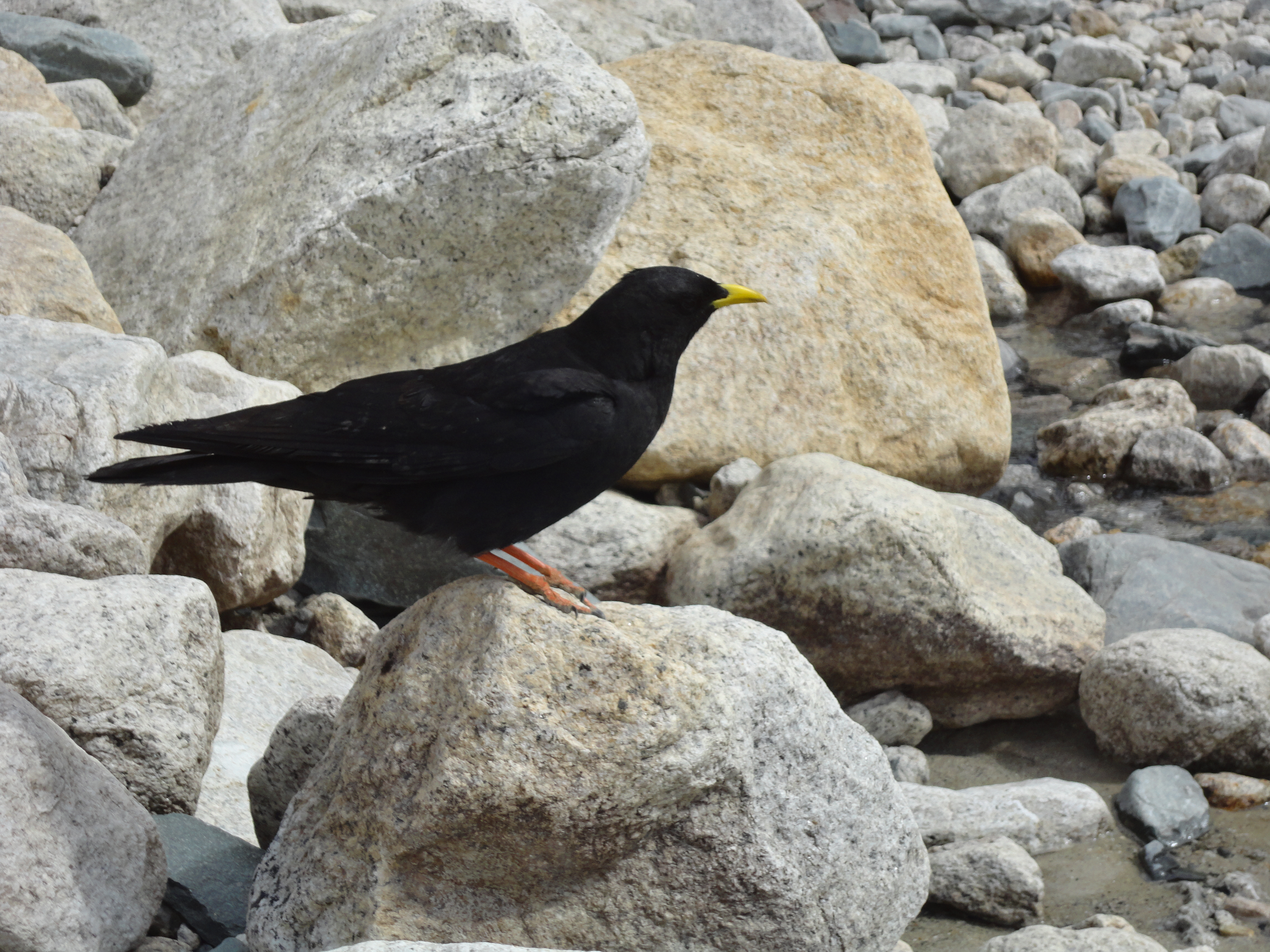 Alpine Chough Pyrrhocorax graculus at Gangotri National Park, Uttarakhand